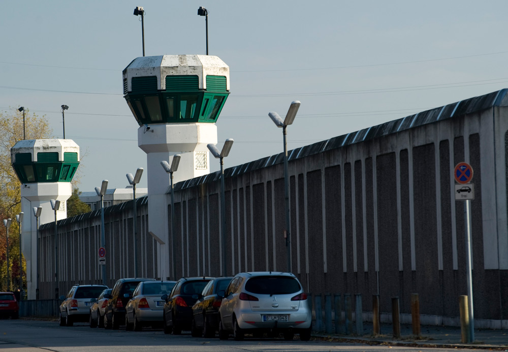 Prison Berlin-Plötzensee, Friedrich-Olbricht-Damm-17, 13627 Berlin